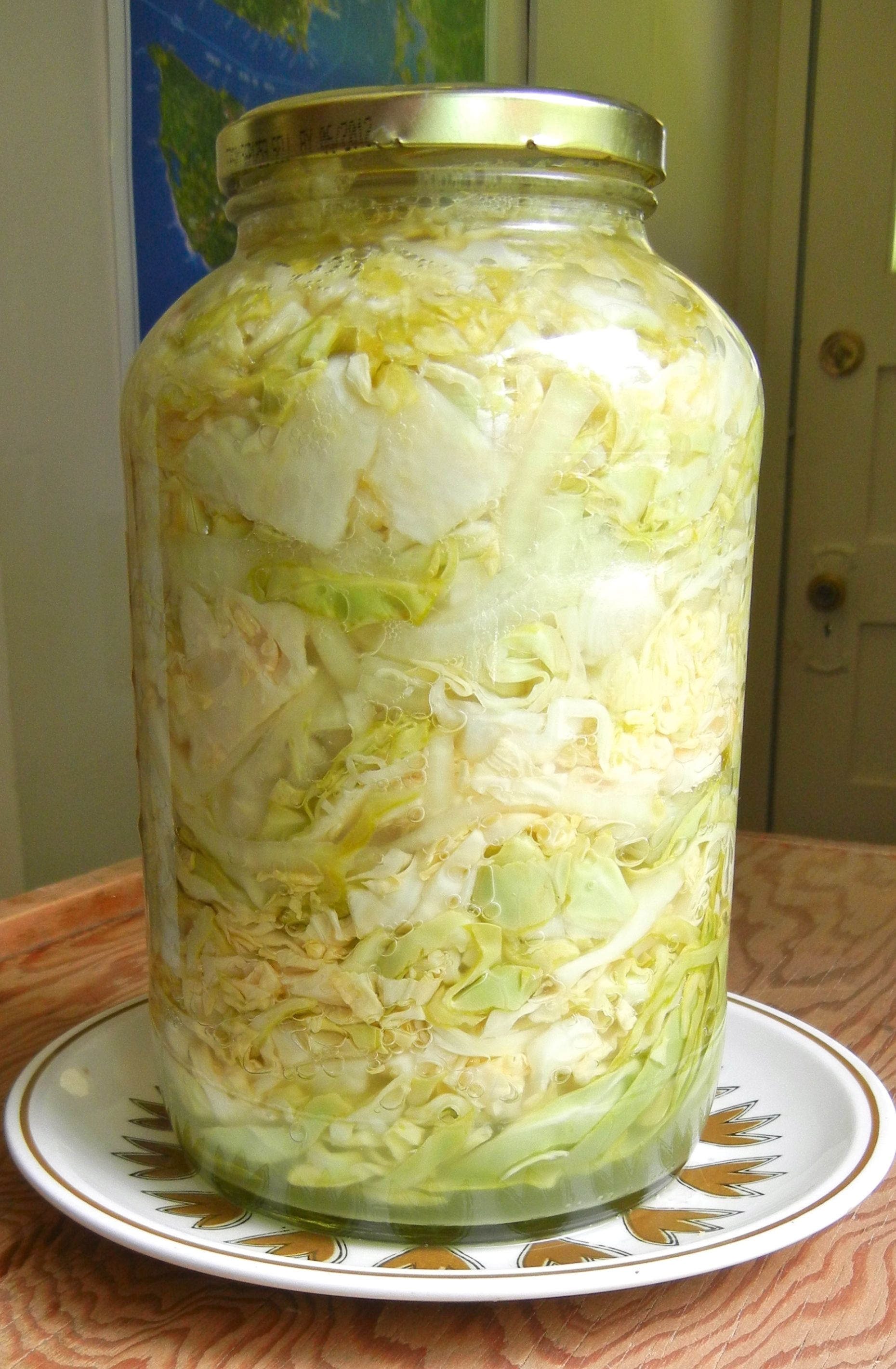 Picture of cabbage and onions fermenting in a glass jar